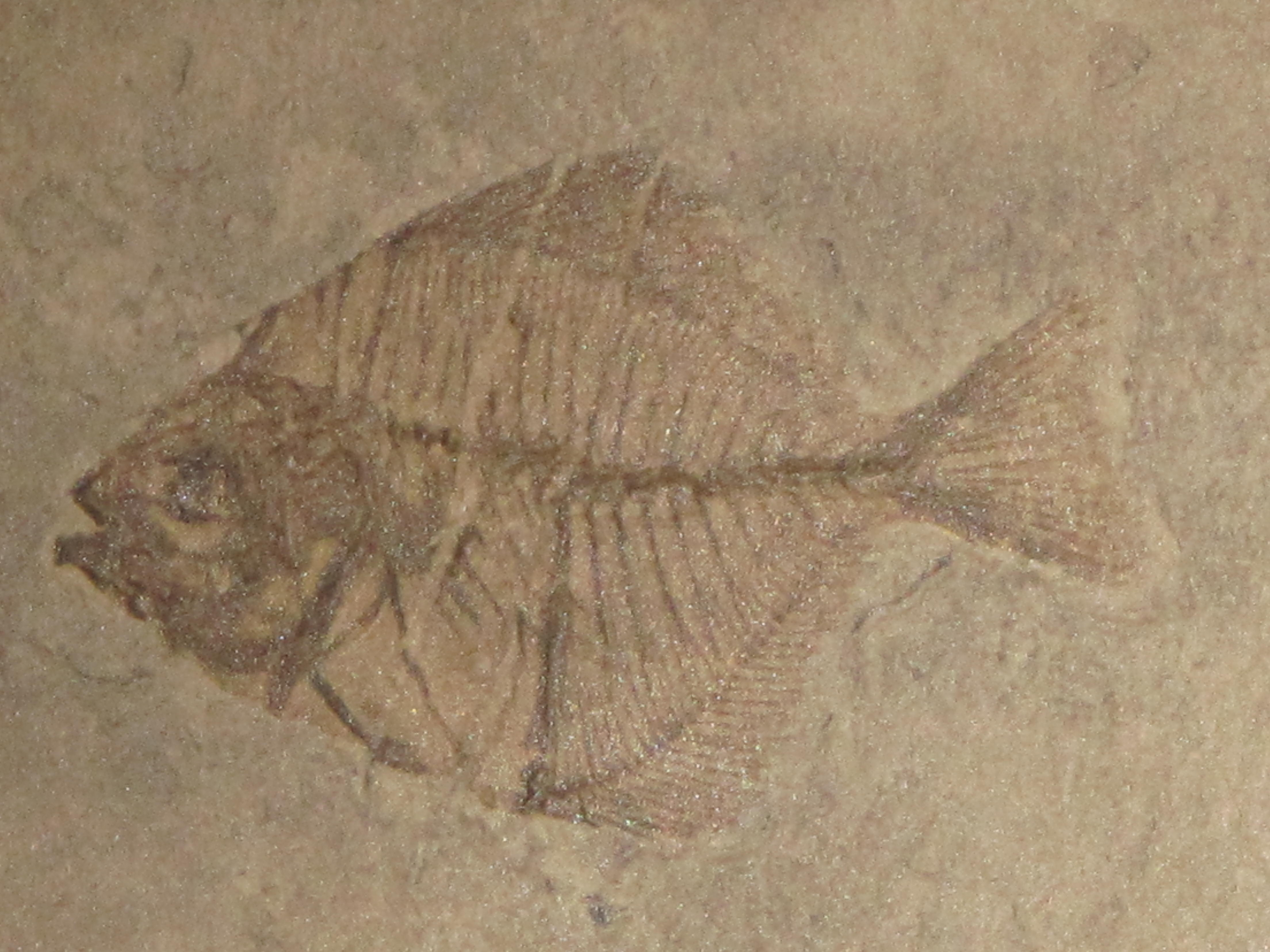 Cast of a fossil of Pasaichthys pleuronectiformis (tertiary). The original is in a museum of Verona, Italy . Long. haut. XXXXXXXX